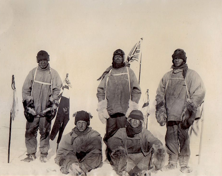 The Terra Nova Expedition at the South Pole, photograph taken by Lieut. H. R. Bowers on 17 January 1912. The five are Bowers, Wilson, Oates, Scott and Evans. Printed from a negative recovered when the bodies were found.